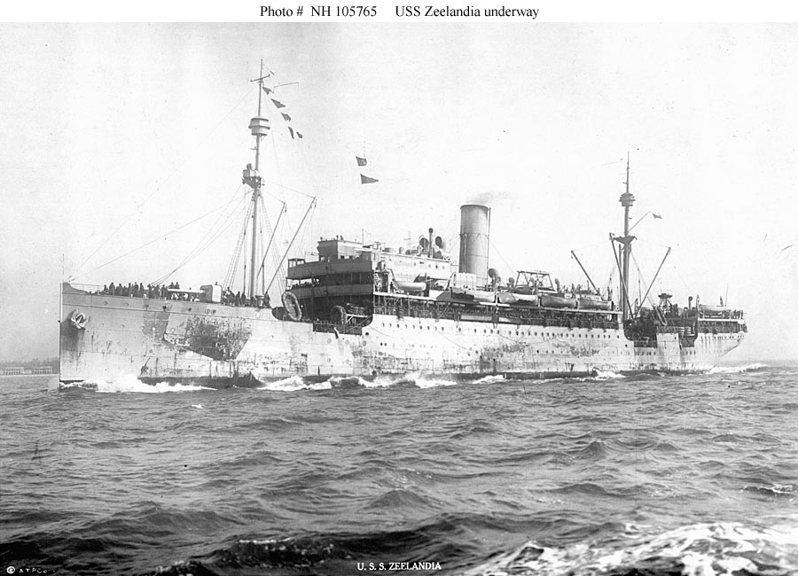 U.S. Navy transport (ship) USS Zeelandia (ID-2507) underway in late 1918 or early 1919